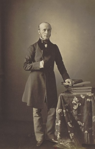 French diplomat Vincent Benedetti (1817-1900) of Corsican Greek origin.